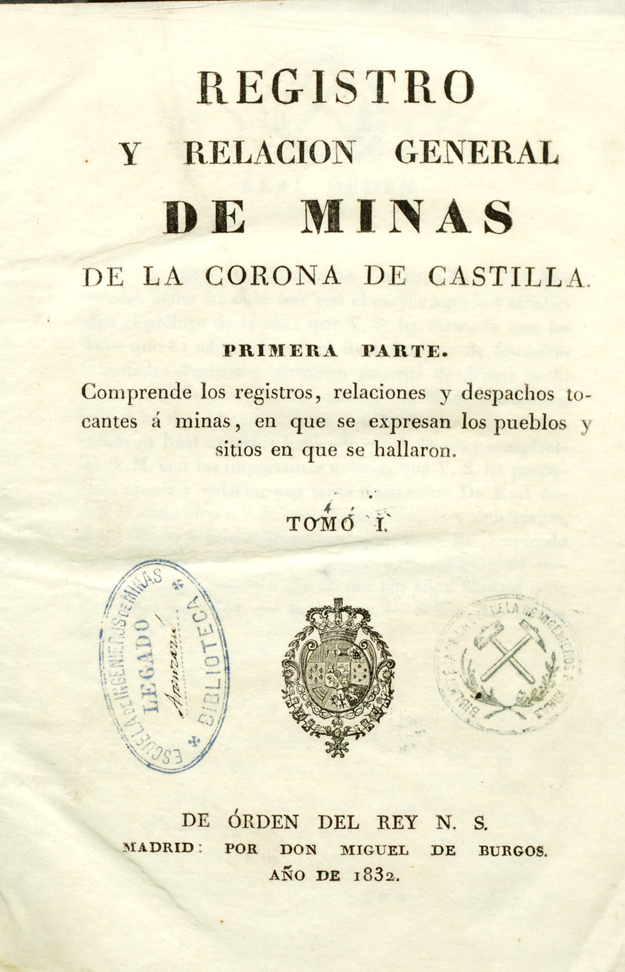 The book contains the information in the Archive of Simancas about old Spanish mines